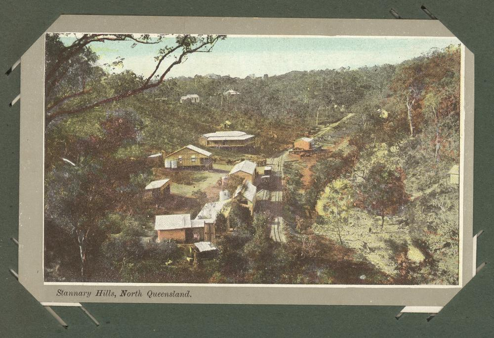 Stannary Hills in North Queensland, ca. 1907. The Stannary Hills and Irvinebank Tramways of Northern Queensland were 2' gauge lines built through spectactular scenery to service tin mines in the area. Notes on the back of the postcard read: 'The value of minerals exported from Queensland during 1906 was £ 3,602,940.' A set of postcards were produced for the Franco-British Exhibition in 1908.